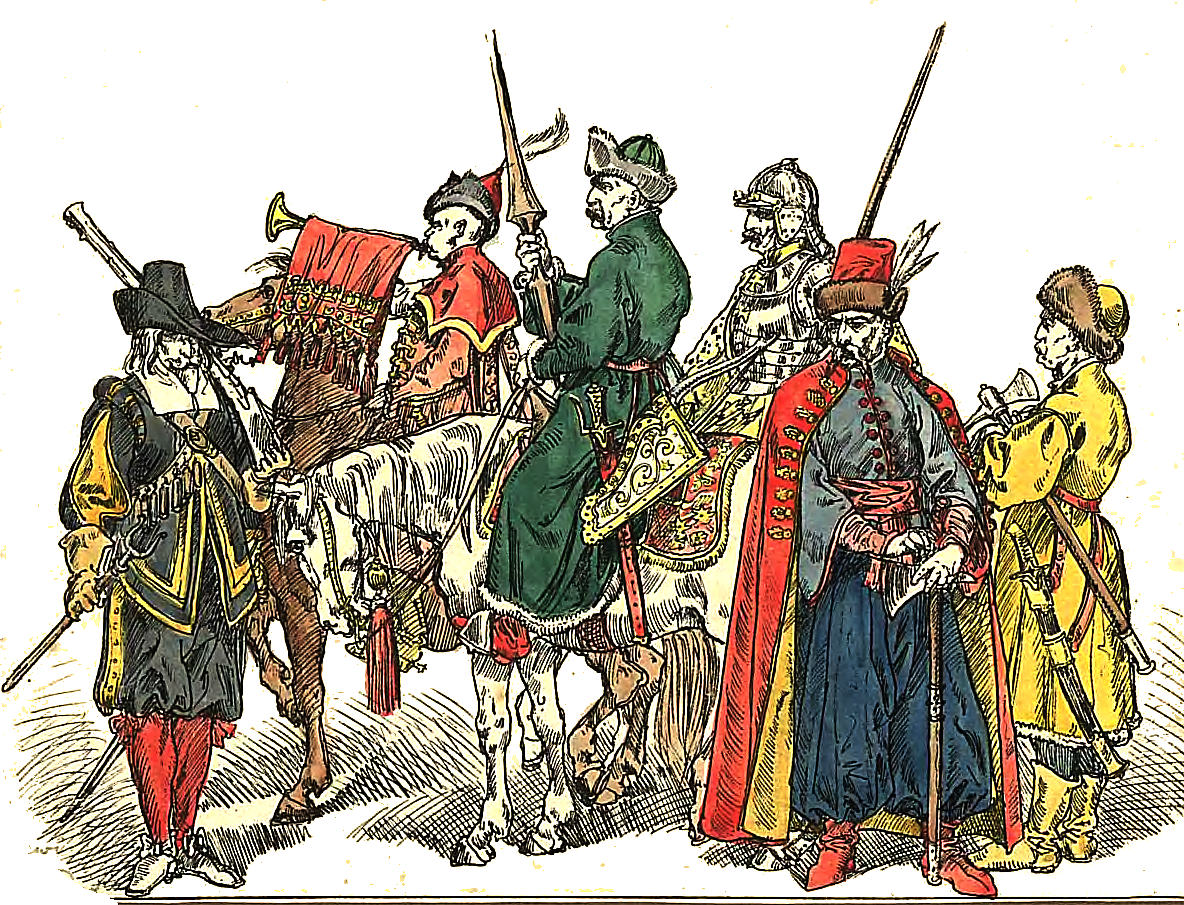 Polish soldiers 1633-1668